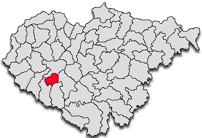 Map Salaj County Romania